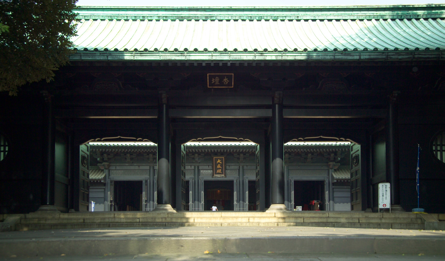 This photograph shows the gate (with the inscription 杏壇) and beyond it the Taisei-den (with the inscription 大成殿) at the Yushima Seido in Tokyo, Japan. I took the photo and contribute my rights in the file to the public domain; individuals and organizations retain rights to images in it.